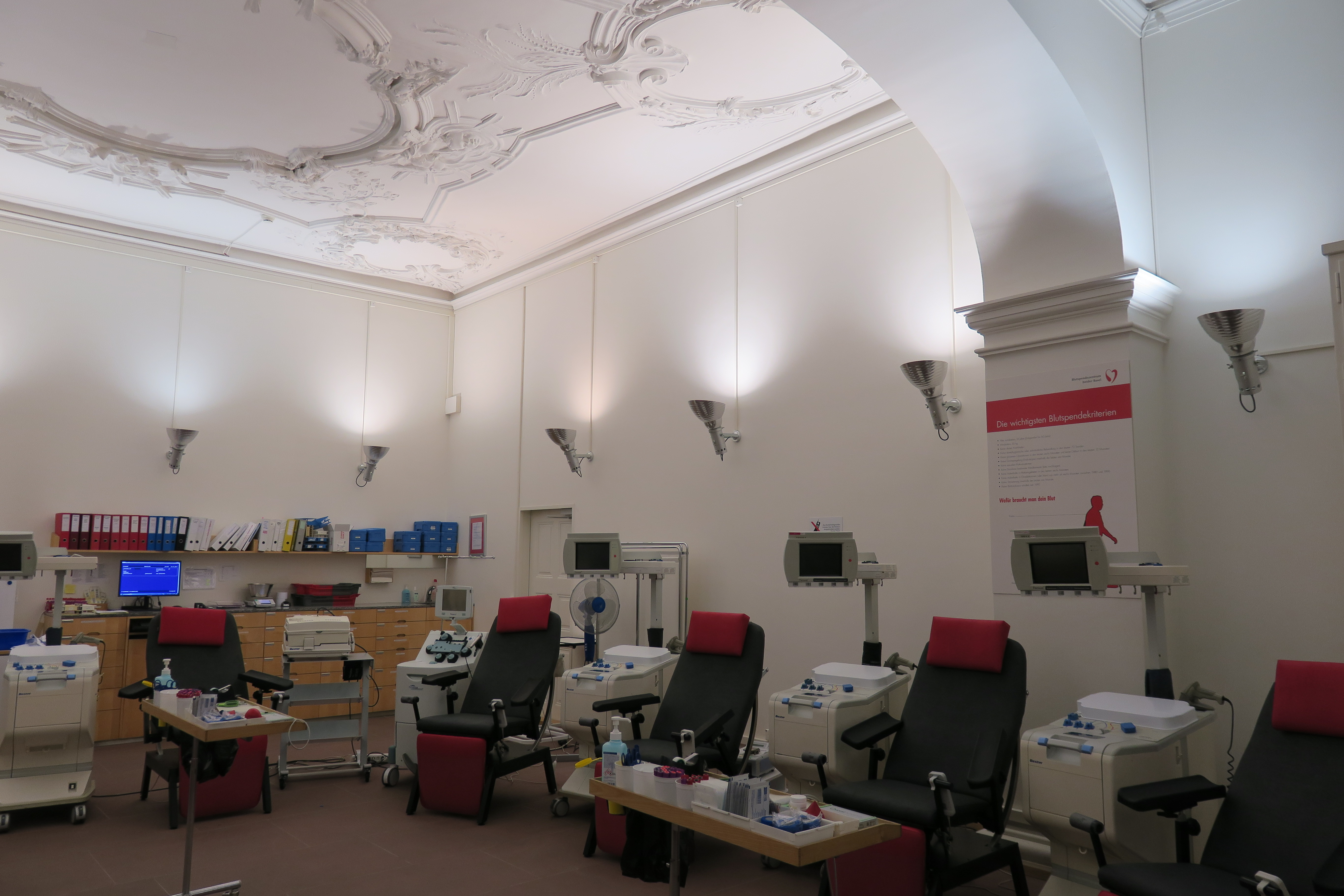 Room for blood donations at the University Hospital Basel, Switzerland. The building is the Markgräflerhof, the oldest baroque palais of Switzerland. Construction began in 1698, and it was completed in 1705. Since 1842, the building is in use by the University Hospital of Basel.